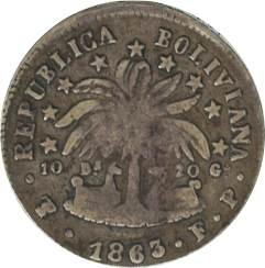 Reverse of Bolivian 2 soles, 1863. Potsoi mint, large stars, small head, KM 135.2. Two llamas rest under a palm tree, surrounded by nine five-pointed stars. Legend "REPUBLICA BOLIVIANA. Below: 1863 and mintmarks